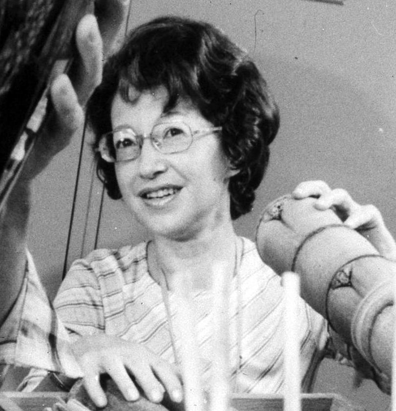 Cleofé-Elsa Calderón at the National Museum of Natural History, examining a number of bamboo samples with Thomas Soderstrom.